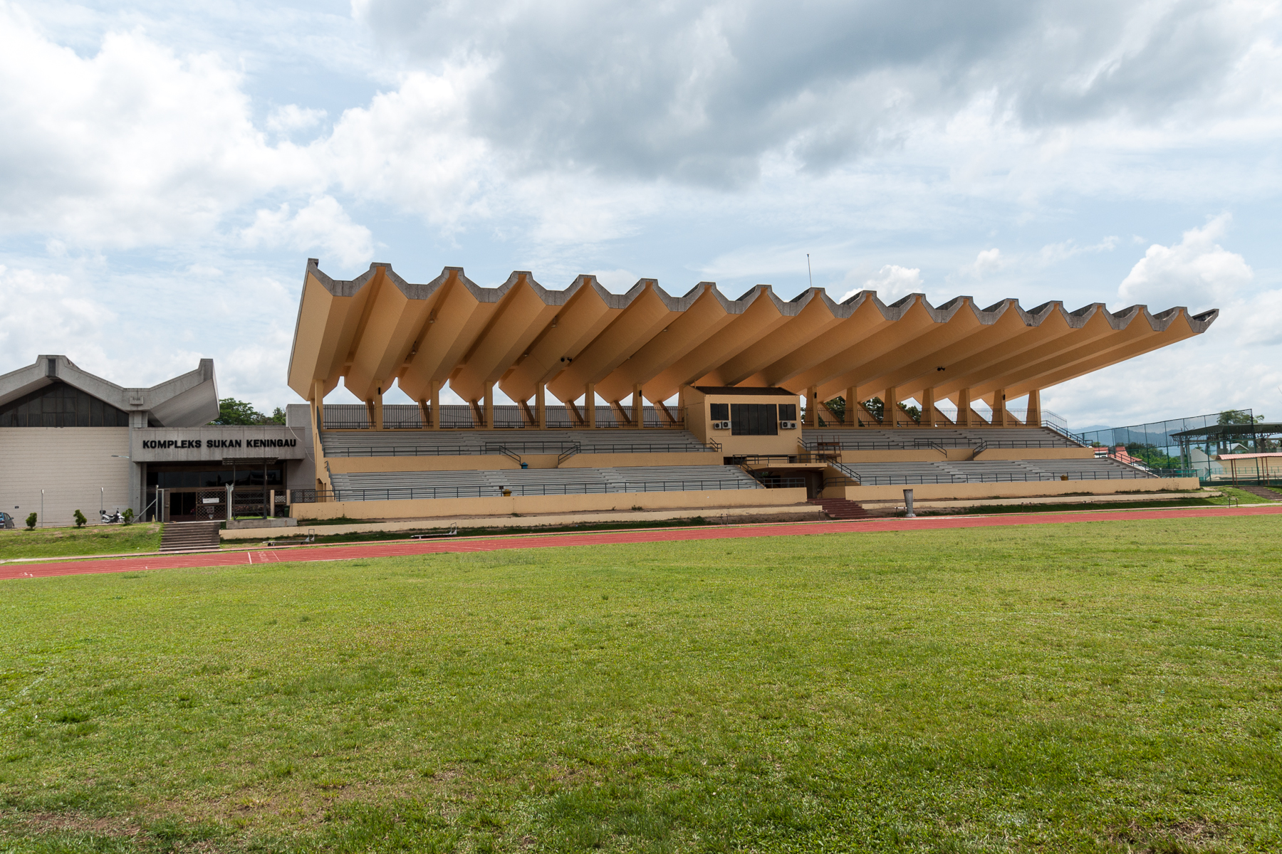 Keningau, Sabah: Sports Center (Kompleks Sukan Keningau)